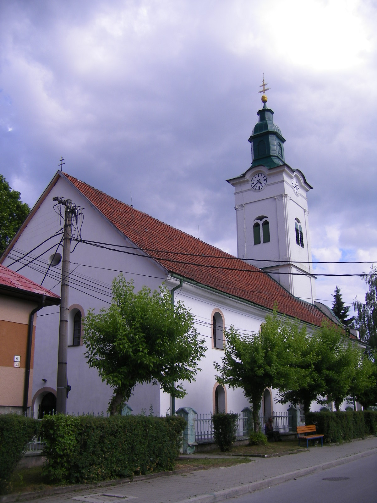 Sučany - evangelic church